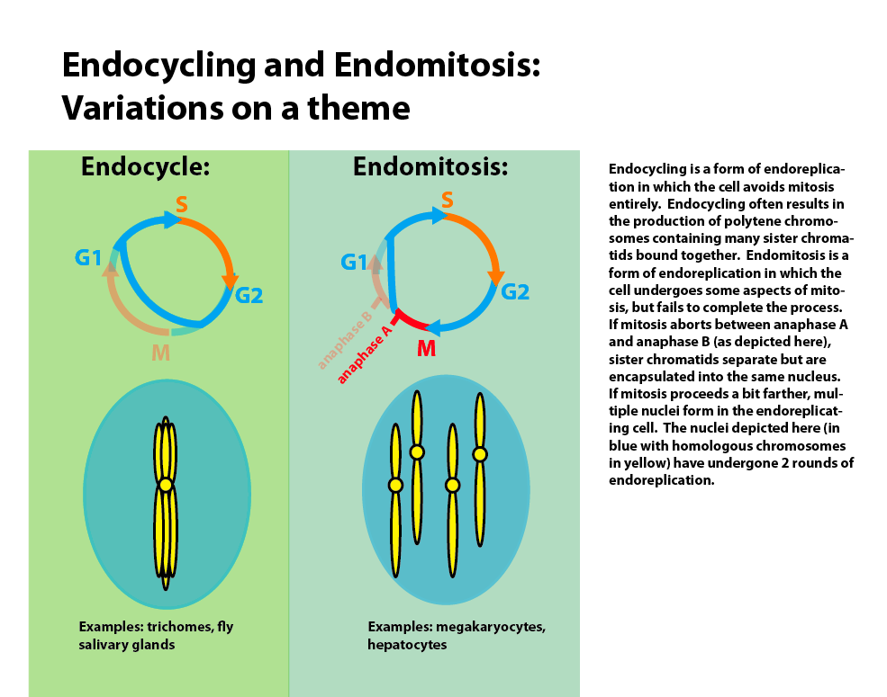 My attempt to illustrate the subtle mechanistic differences between endocycling and endomitosis